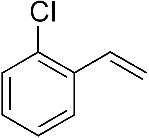 chemical structure of 2-chlorostyrene